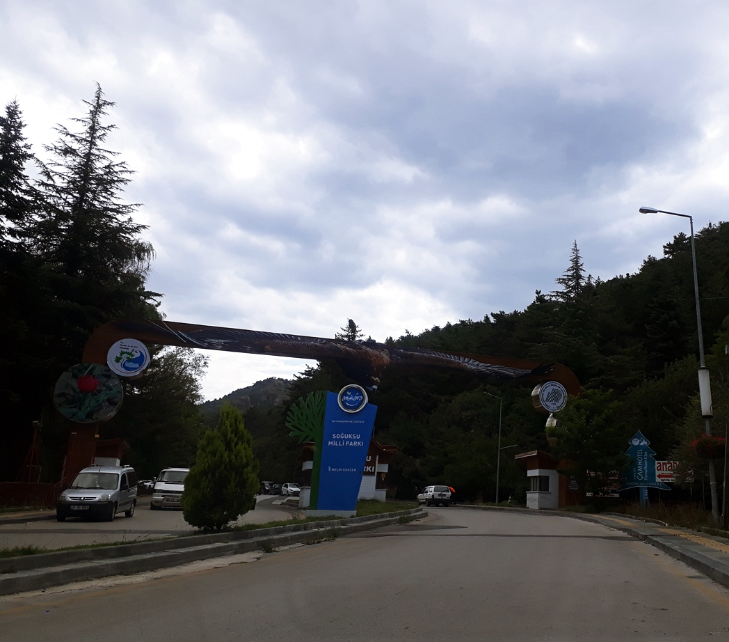 Soğuksu National Park